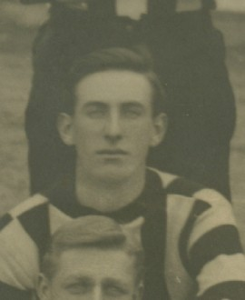 Photograph of Horrie Jones in 1910